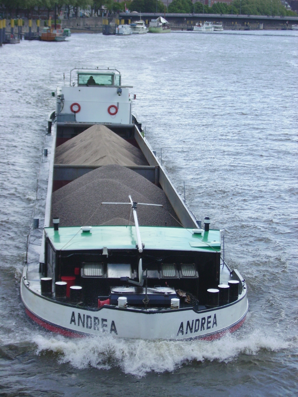 The barge "Andrea" on the river Weser